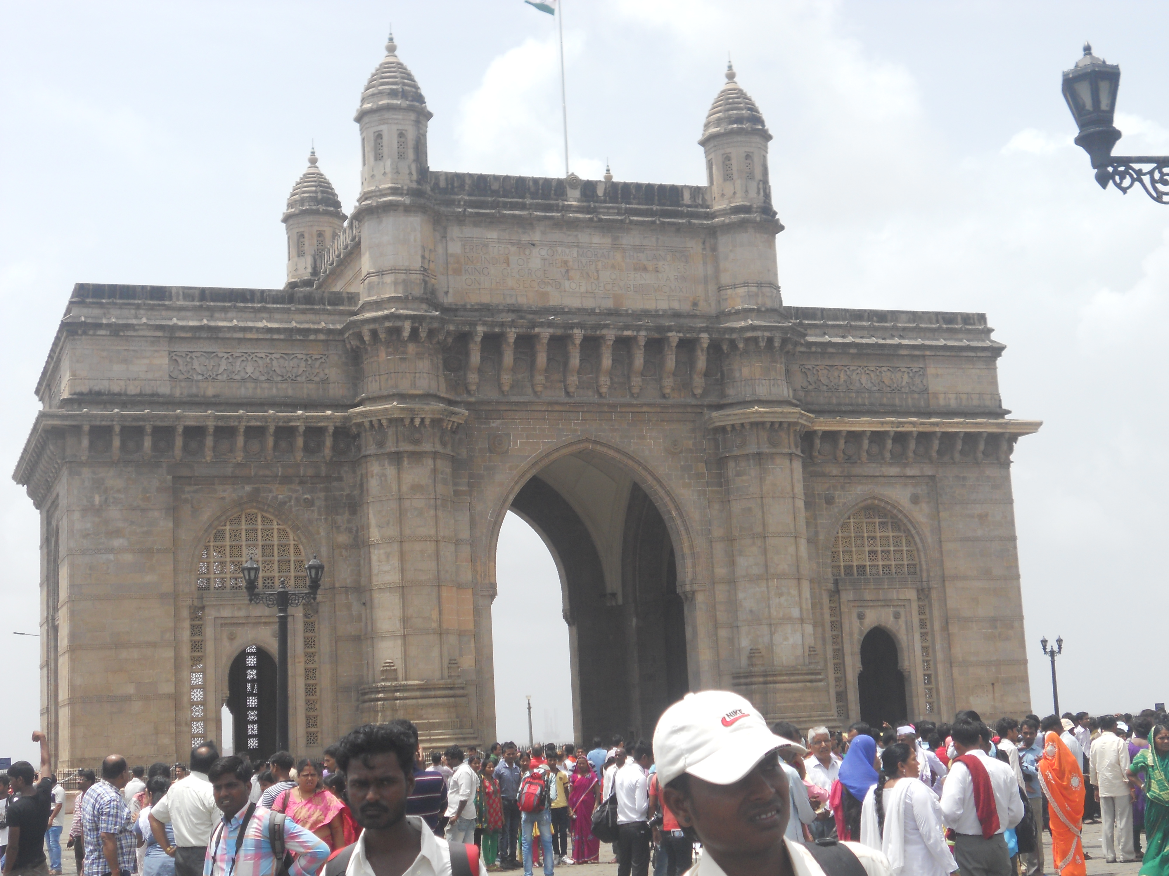 This image is of Gateway of India which was captured by Ajay Saini in summer of 2015